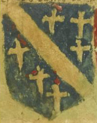 Coat of arms of "Le conte de Mar" as it appears in the fourteenth-century Balliol Roll.